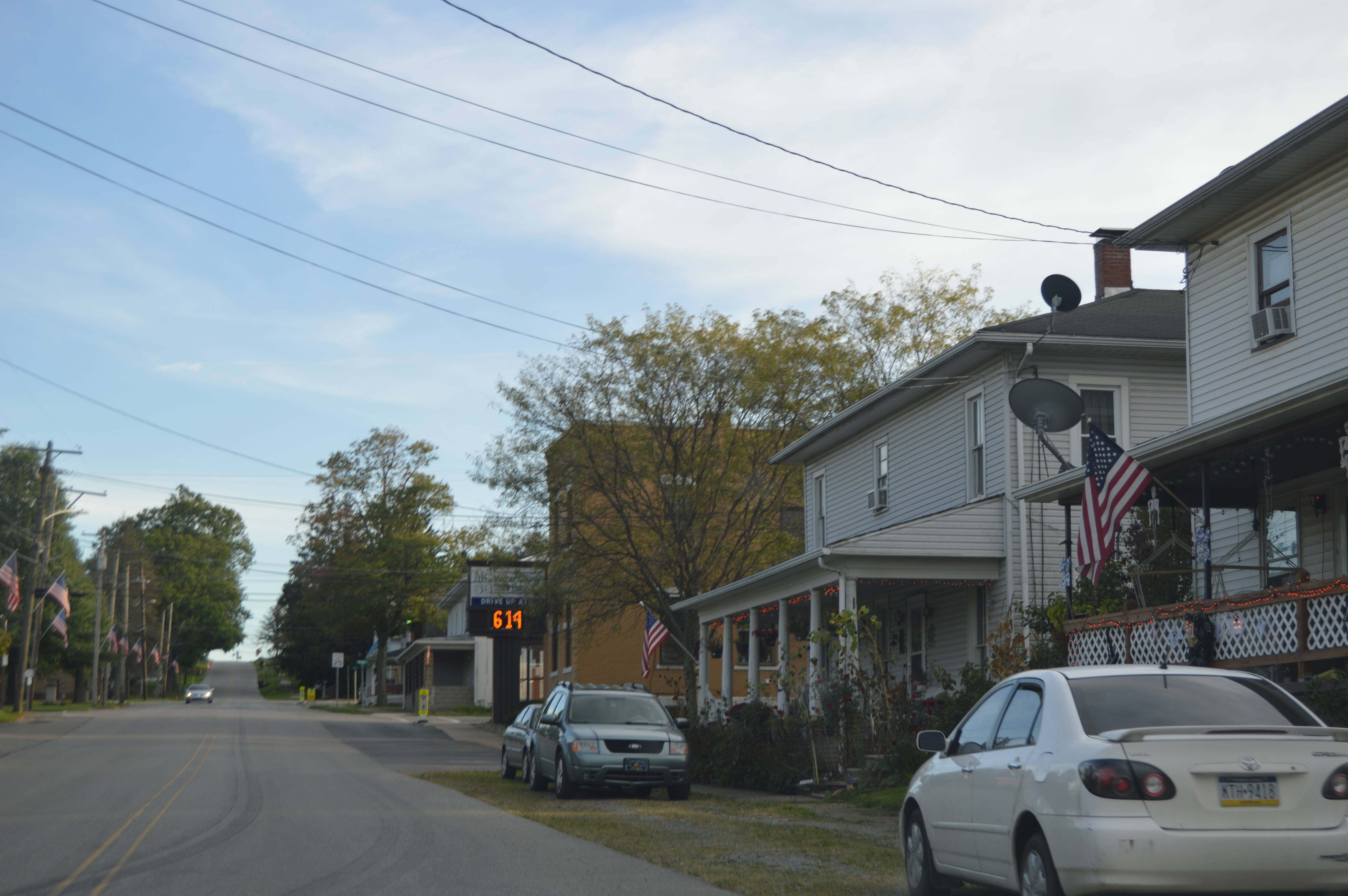 Buildings on the western side of Main Street, south of Third Street, in Fredonia, Pennsylvania, United States.